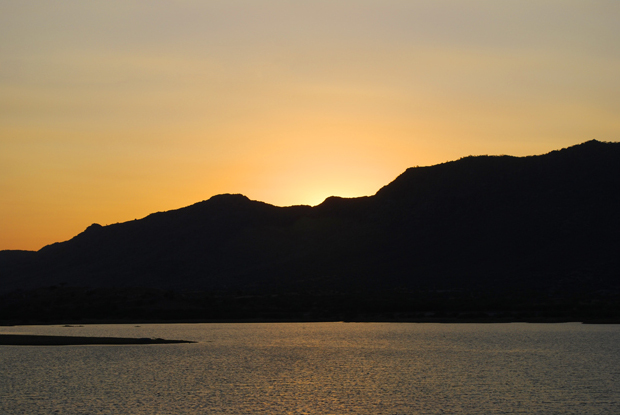 This is the snap of Lake Foy Sagar of Ajmer (Rajasthan, India) clicked on a sunny evening.